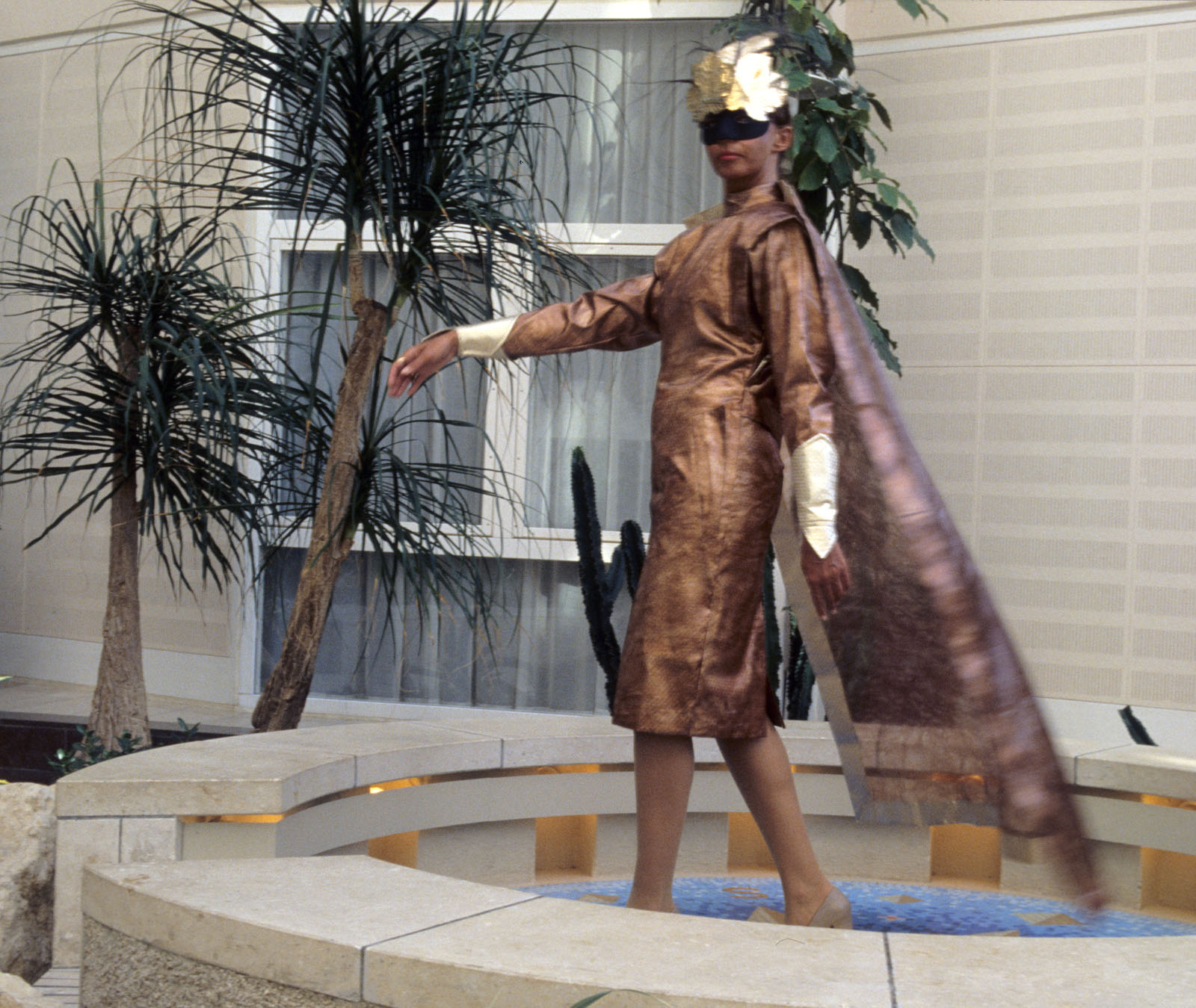 Wearable art. "Insect dress" (1985) by the Norwegian designer Lise Skjåk Bræk. Purchased by Nordenfjeldske Kunstindustrimuseum (=National Museum of Decorative Arts and Design), Trondheim, Norway